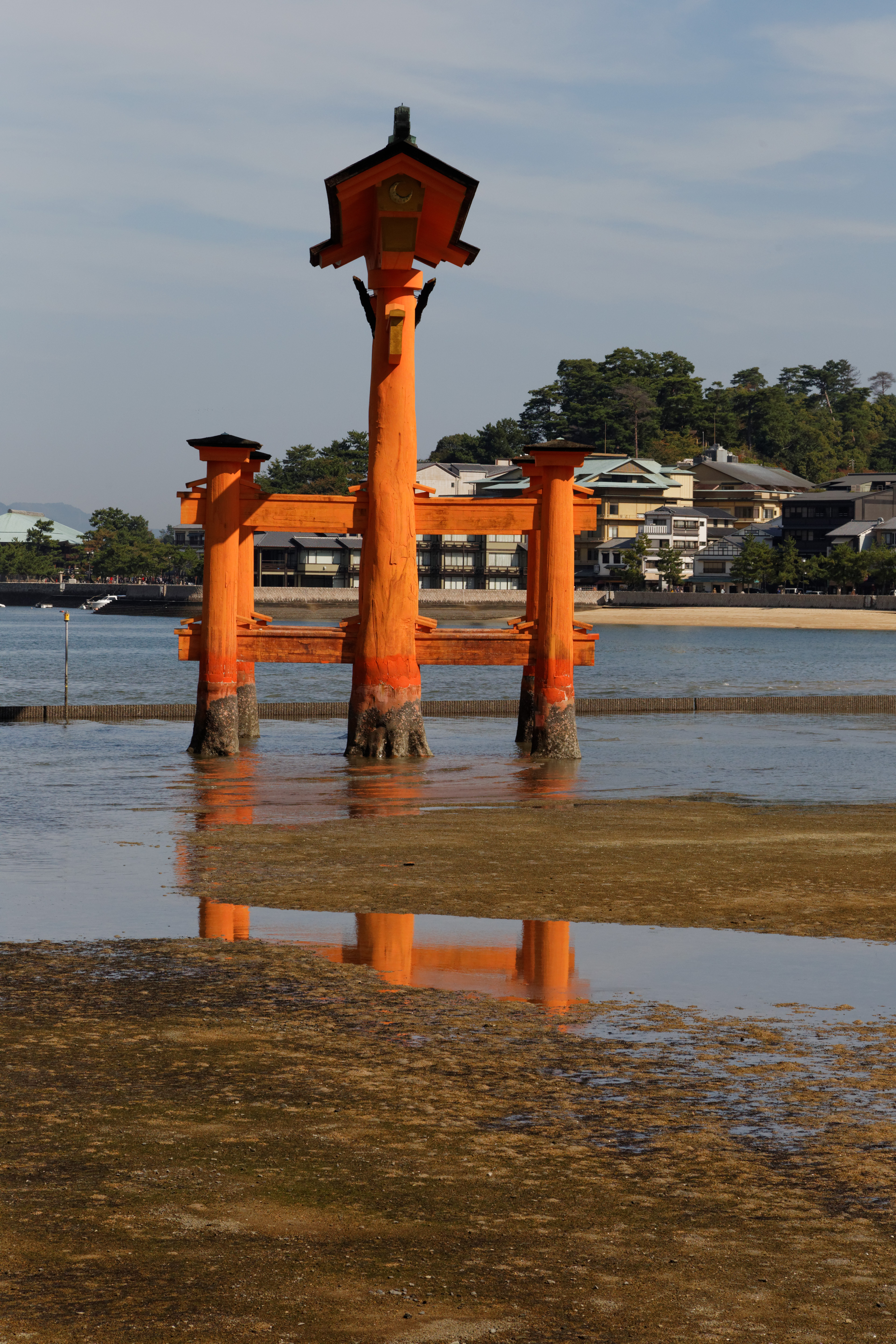 Itsukushima shrine